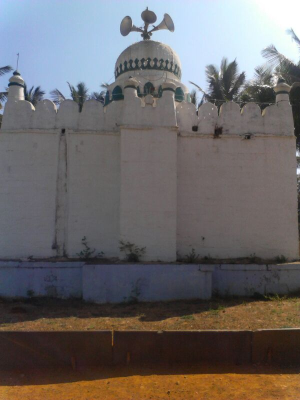 Jamiya masjid